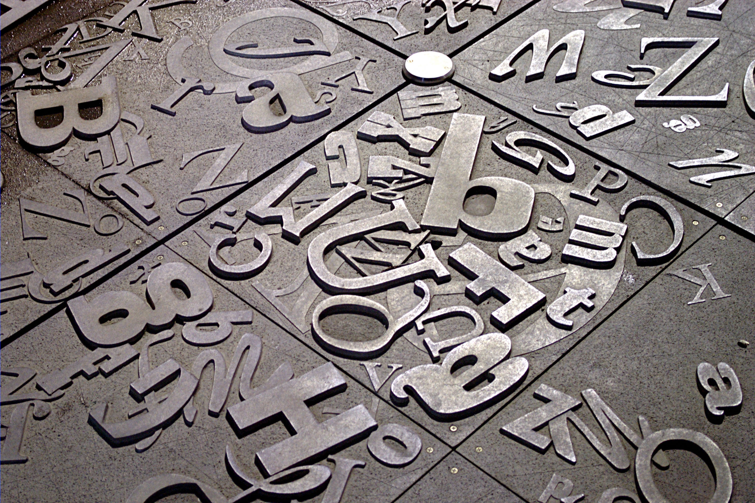 Detail from the Pool of Knowledge sculpture by Stacey Spiegel, Living Arts Park, Mississauga, Canada.